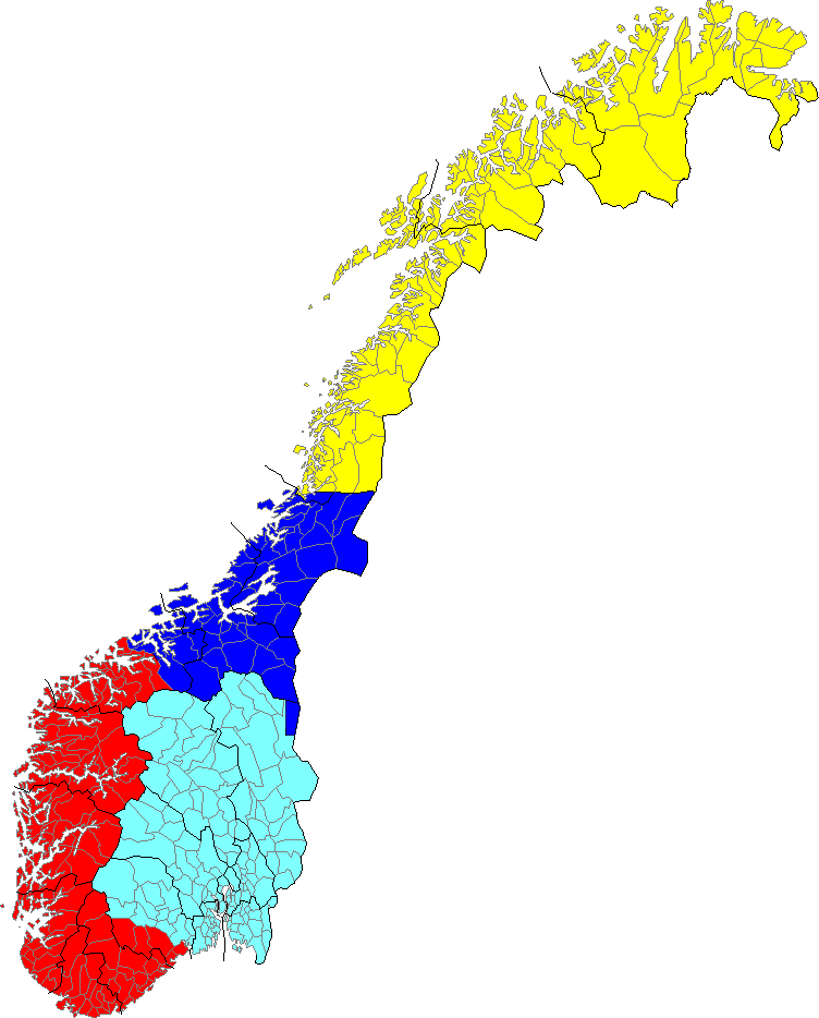 Norwegian dialects North Norwegian Trøndelag Norwegian East Norwegian West Norwegian